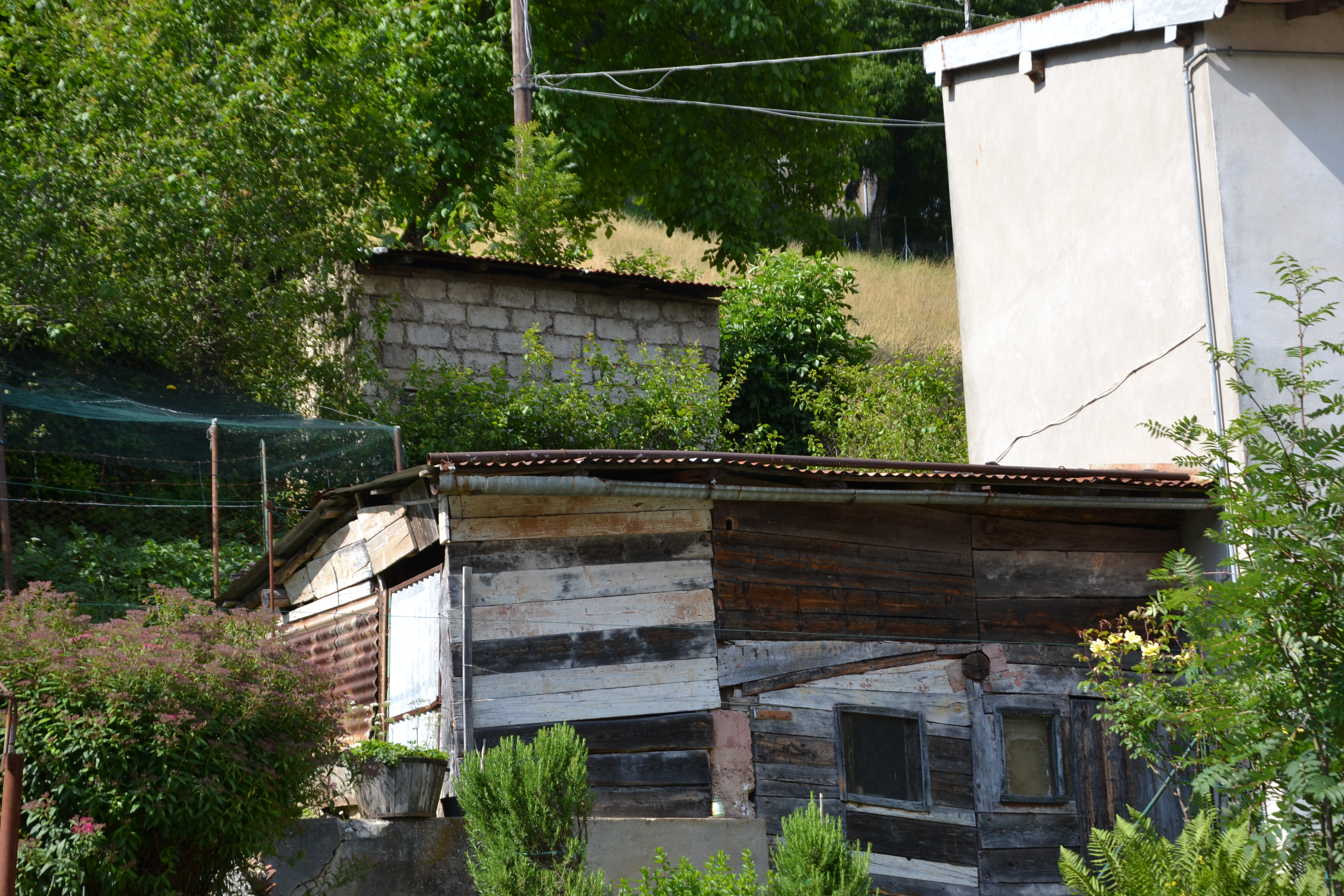 House in Oltre il Colle, Italy